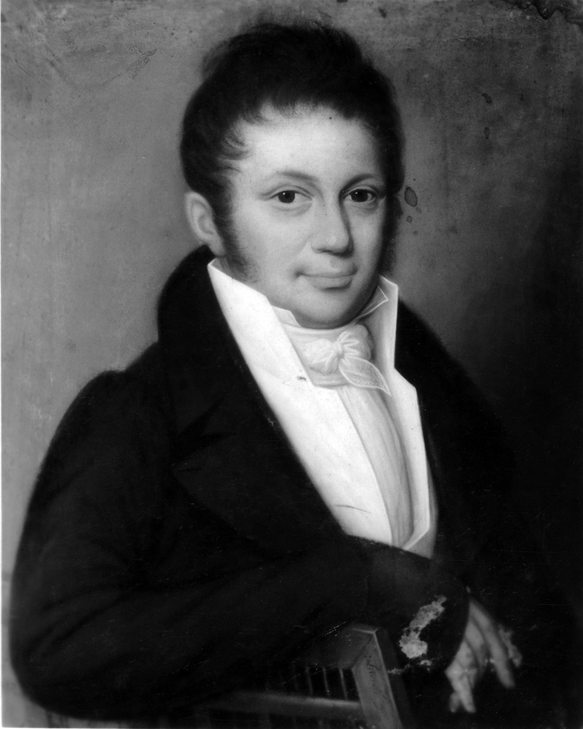 Lina Krieger, Portret Aleksandra Tomasza Mazaraki, 1817, pastel, zbiory prywatne